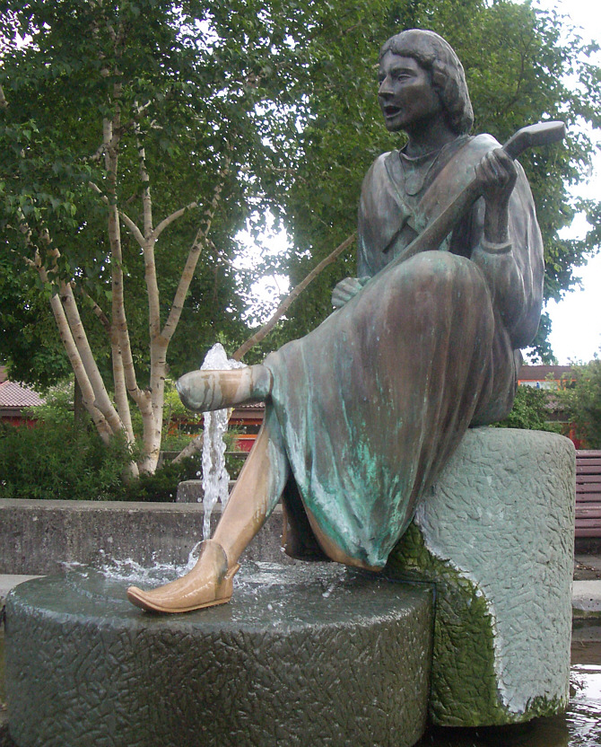 Ravensburg, Germany: Schmalegg, "Schenkenbrunnen" fountain, depicting minnesinger Ulrich von Winterstetten. Design: Klaus Fix, 1988.